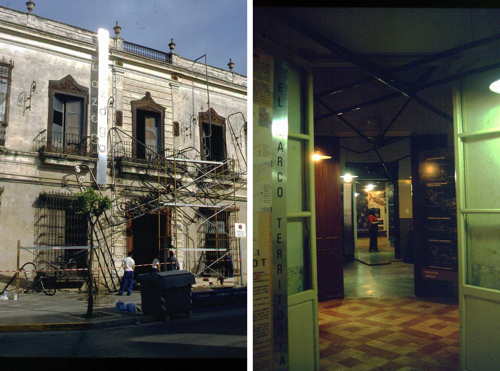 Rehabilitation of Casa Lazaga in San Fernando, Spain